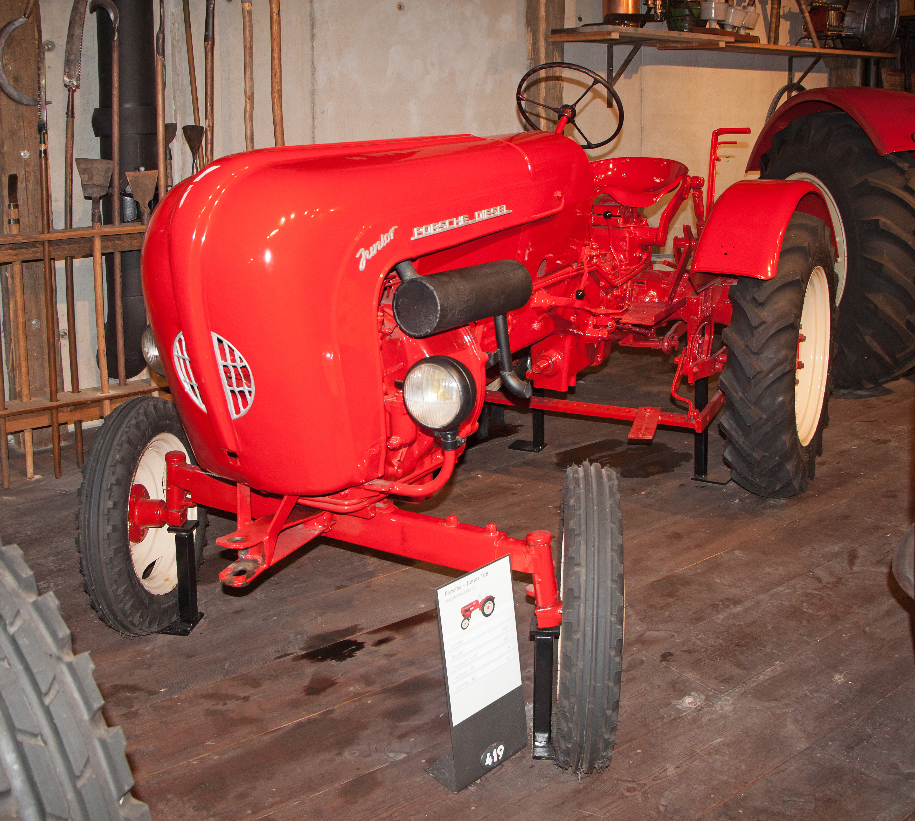 Porsche Junior 108, Porsche-Diesel Motorenbau GmbH, Friedrichshafen, Germany, 1959.Cylinder: 1 Engine displacement: 822 ccmHP: 14Weight: 910 kg Traktormuseum Bodensee, Gebhardsweiler, Uhldingen-Mühlhofen,Germany